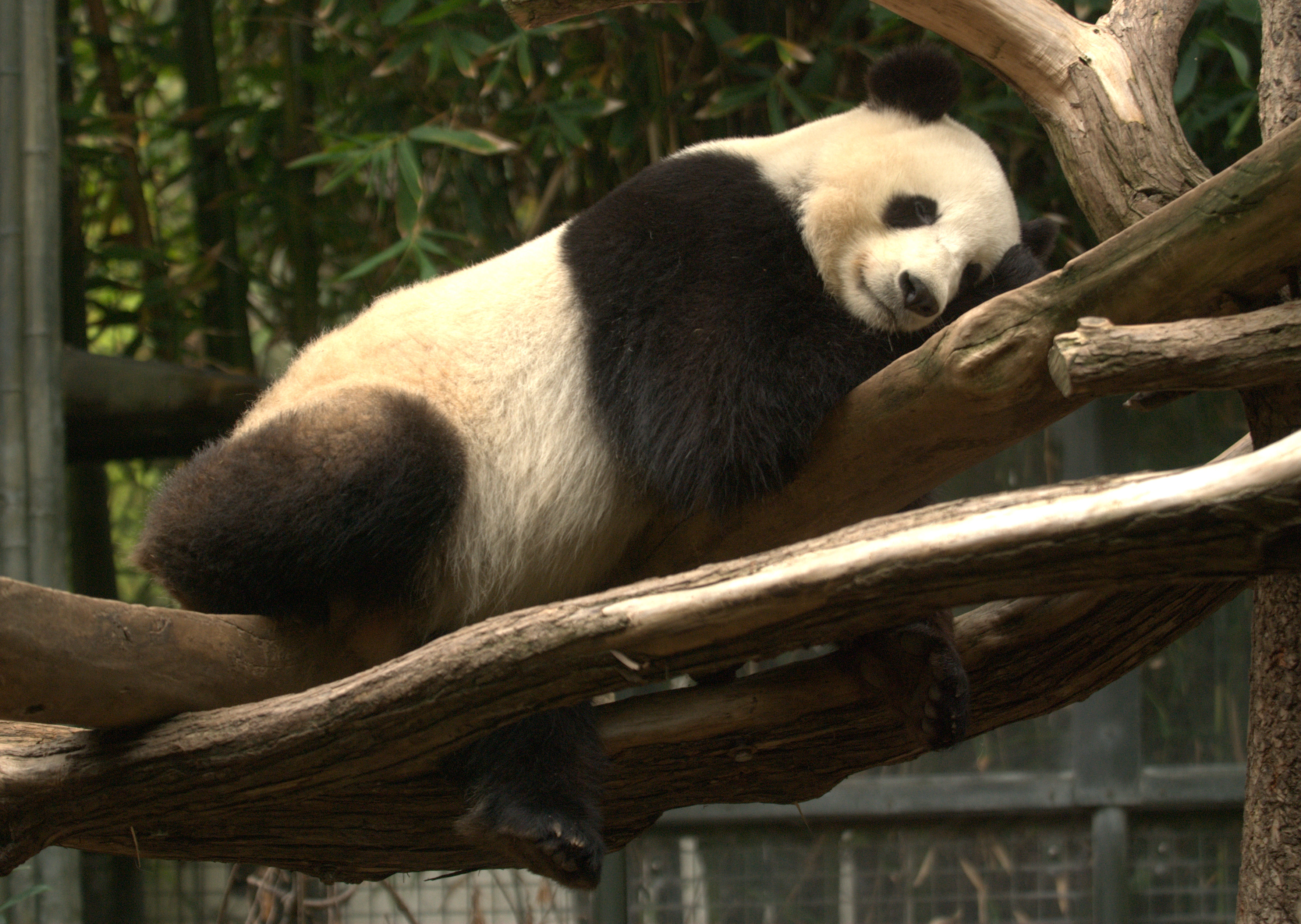 Mei Sheng takes a panda nap at his enclosure at the San Diego Zoo on July 15, 2007.